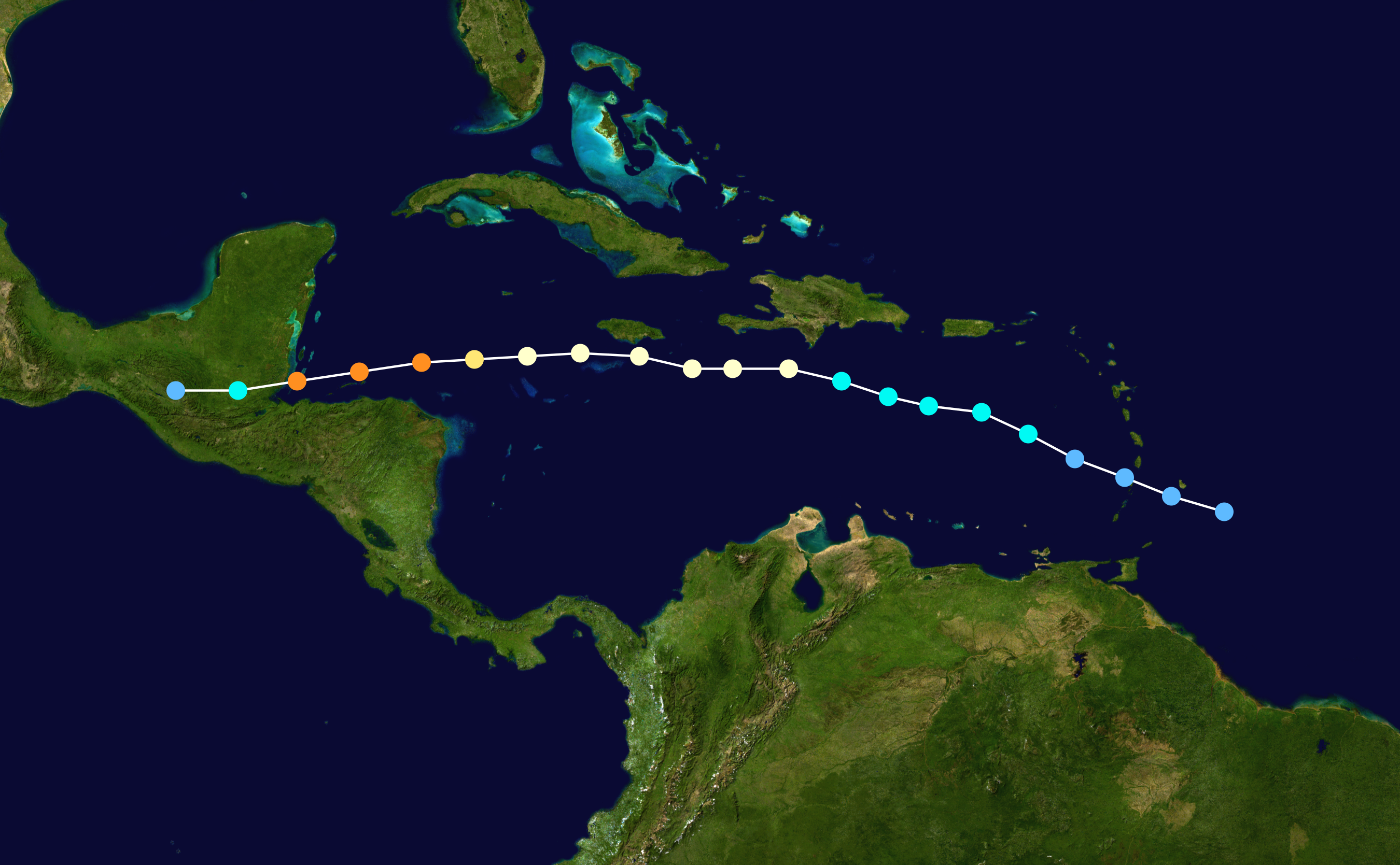 Track map of Hurricane Iris of the 2001 Atlantic hurricane season. The points show the location of the storm at 6-hour intervals. The colour represents the storm's maximum sustained wind speeds as classified in the Saffir–Simpson scale (see below), and the shape of the data points represent the nature of the storm, according to the legend below. Saffir–Simpson scale Tropical depression≤38 mph≤62 km/h Category 3111–129 mph178–208 km/h Tropical storm39–73 mph63–118 km/h Category 4130–156 mph209–251 km/h Category 174–95 mph119–153 km/h Category 5≥157 mph≥252 km/h Category 296–110 mph154–177 km/h Unknown Storm type Tropical cyclone Subtropical cyclone Extratropical cyclone / Remnant low / Tropical disturbance / Monsoon depression